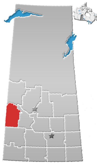 Saskatchewan census area No. 13